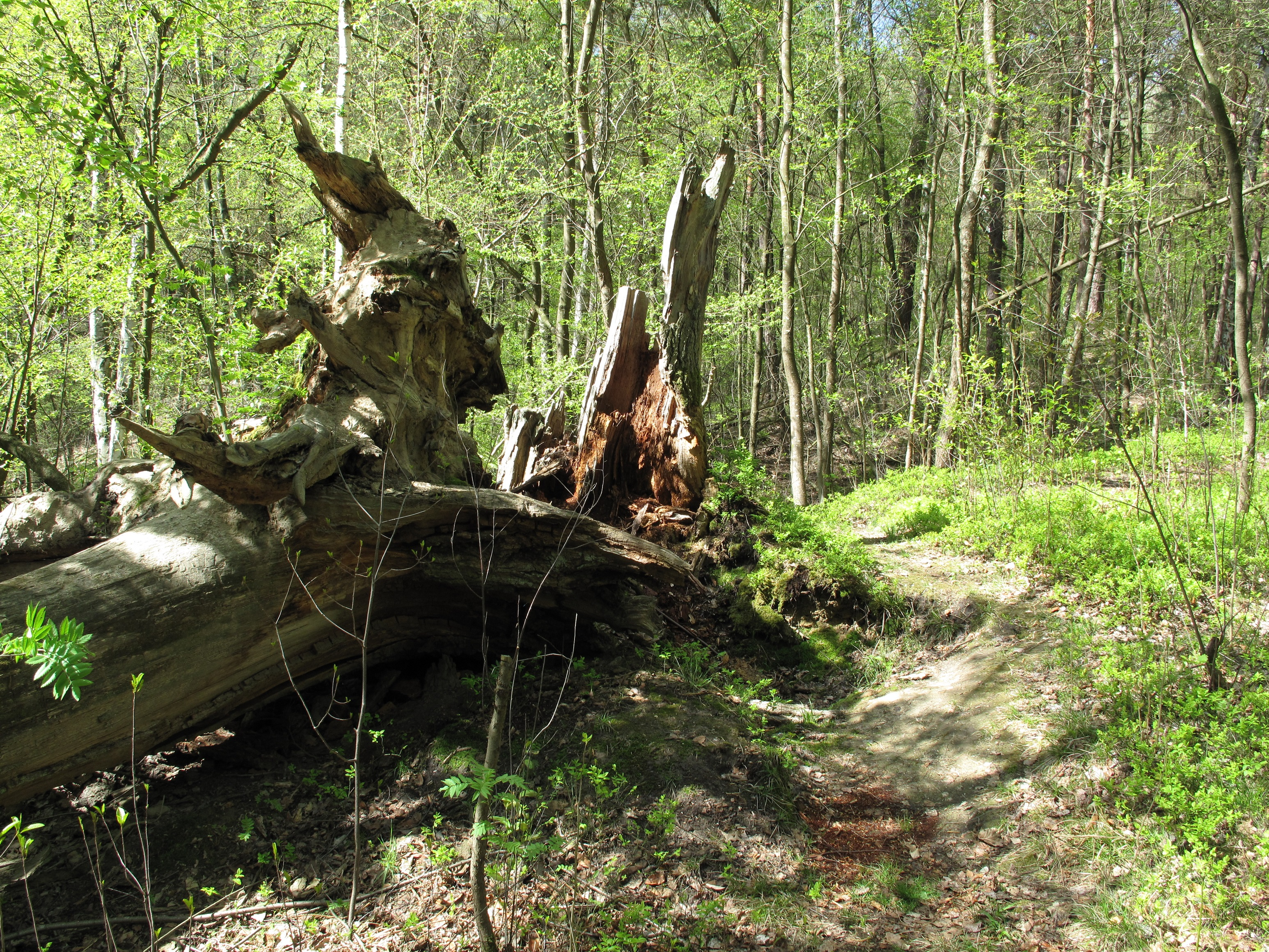 Forest in the southeast of the „Hof Marienhöhe“ in April 2014. Marienhöhe is a part (settlement, estate; german: Wohnplatz) and organic farm of Bad Saarow, District Oder-Spree, Brandenburg, Germany. The place was established in 1880 as folwark of the manor Saarow. Since 1928 the „Hof Marienhöhe“ works on the biodynamic agriculture-method (Demeter international) and is considered to be the oldest farm working with this method in Germany.